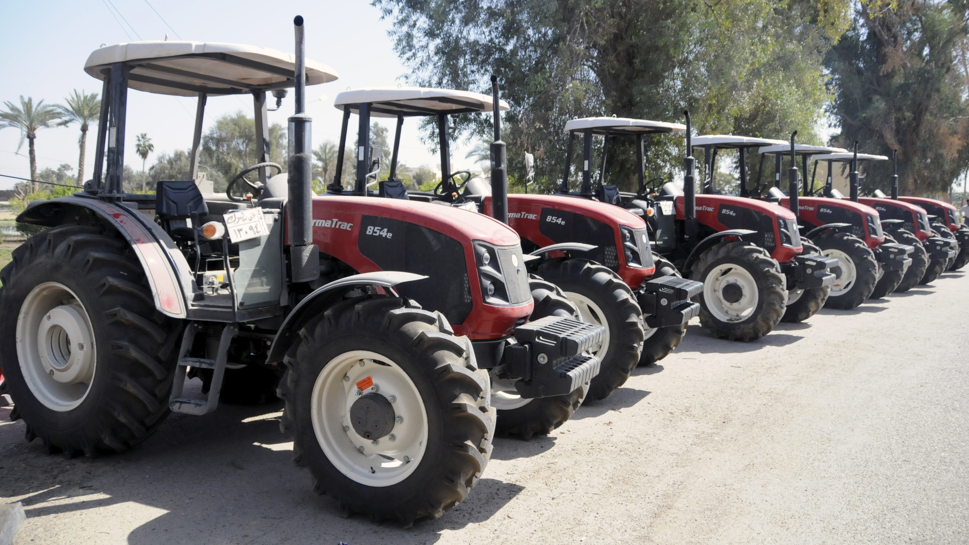 Brand new ArmaTrac 854e tractors are lined up in the parking lot of the University of Baghdad Agriculture College at the grand opening of the agricultural cooperatives in Abu Ghraib, Iraq, March 19, 2011.